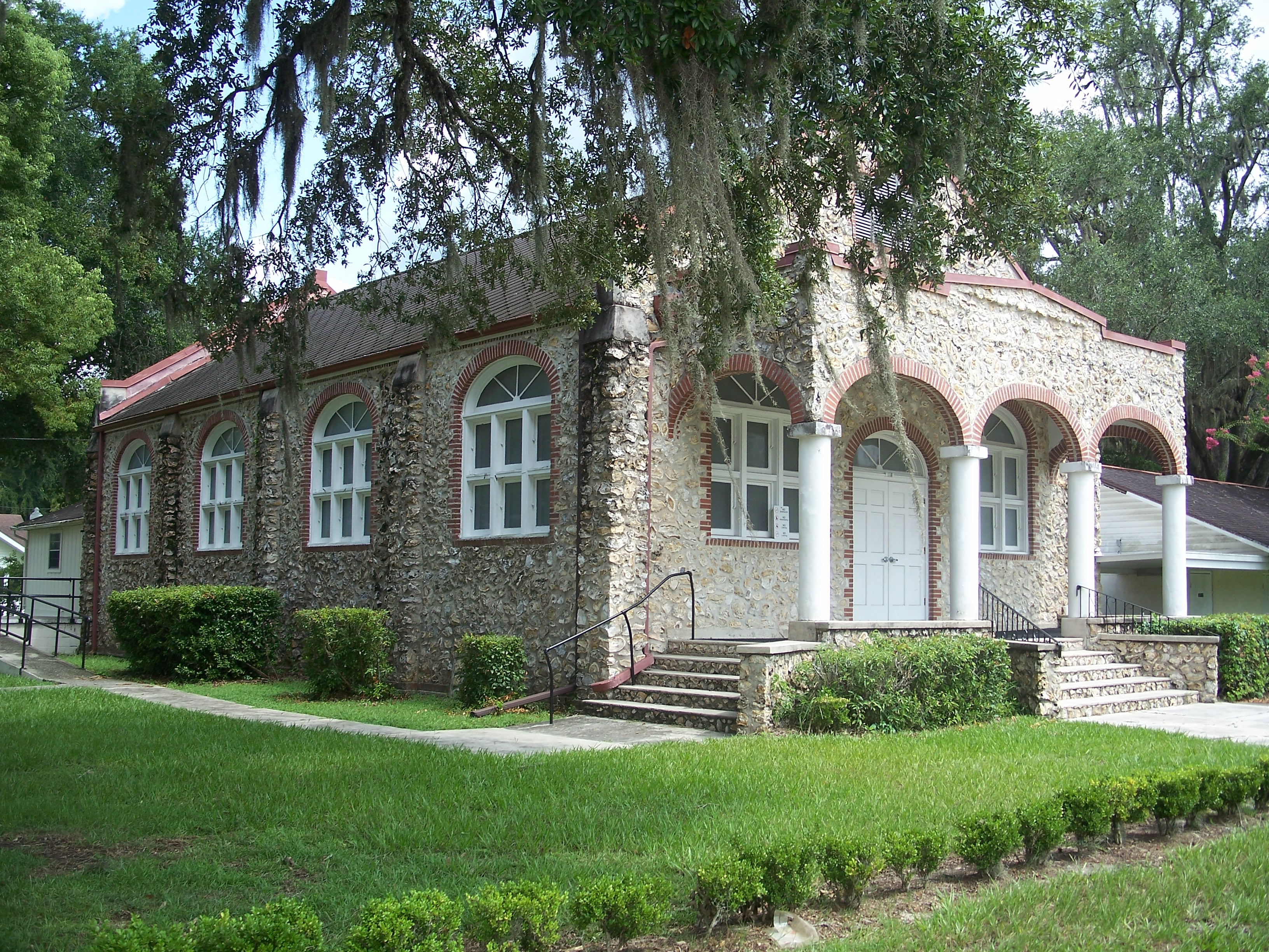 Trenton, Florida: Trenton Church of Christ, now the meeting place for the Gilchrist County Board of County Commissioners